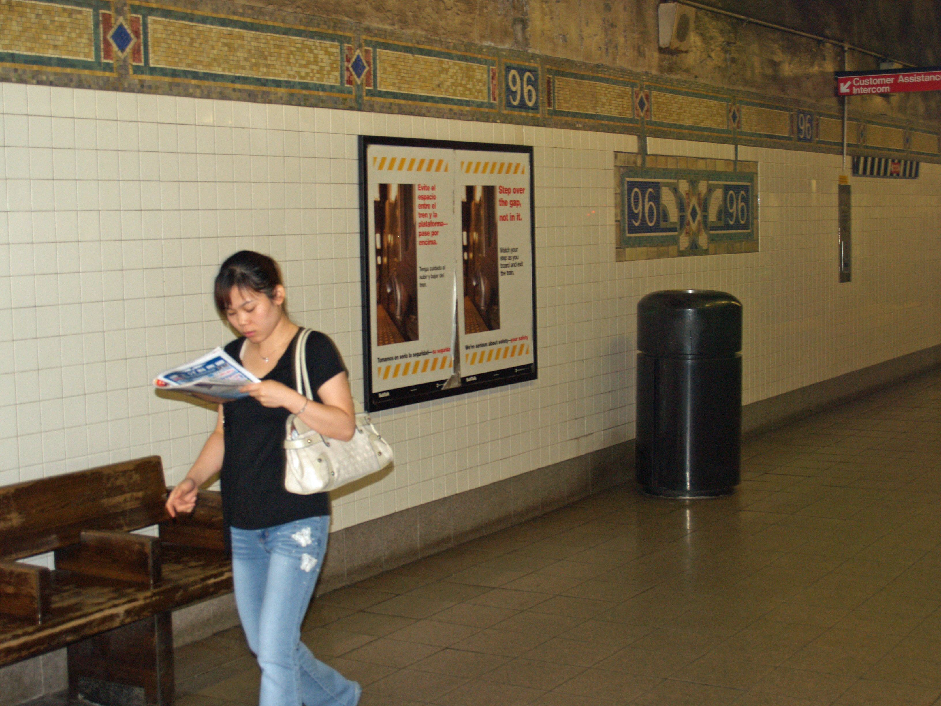 96th Street (IRT Lexington Avenue Line)